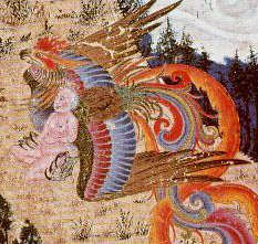 Zal and the Simurgh